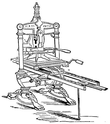 Albion Press printing press